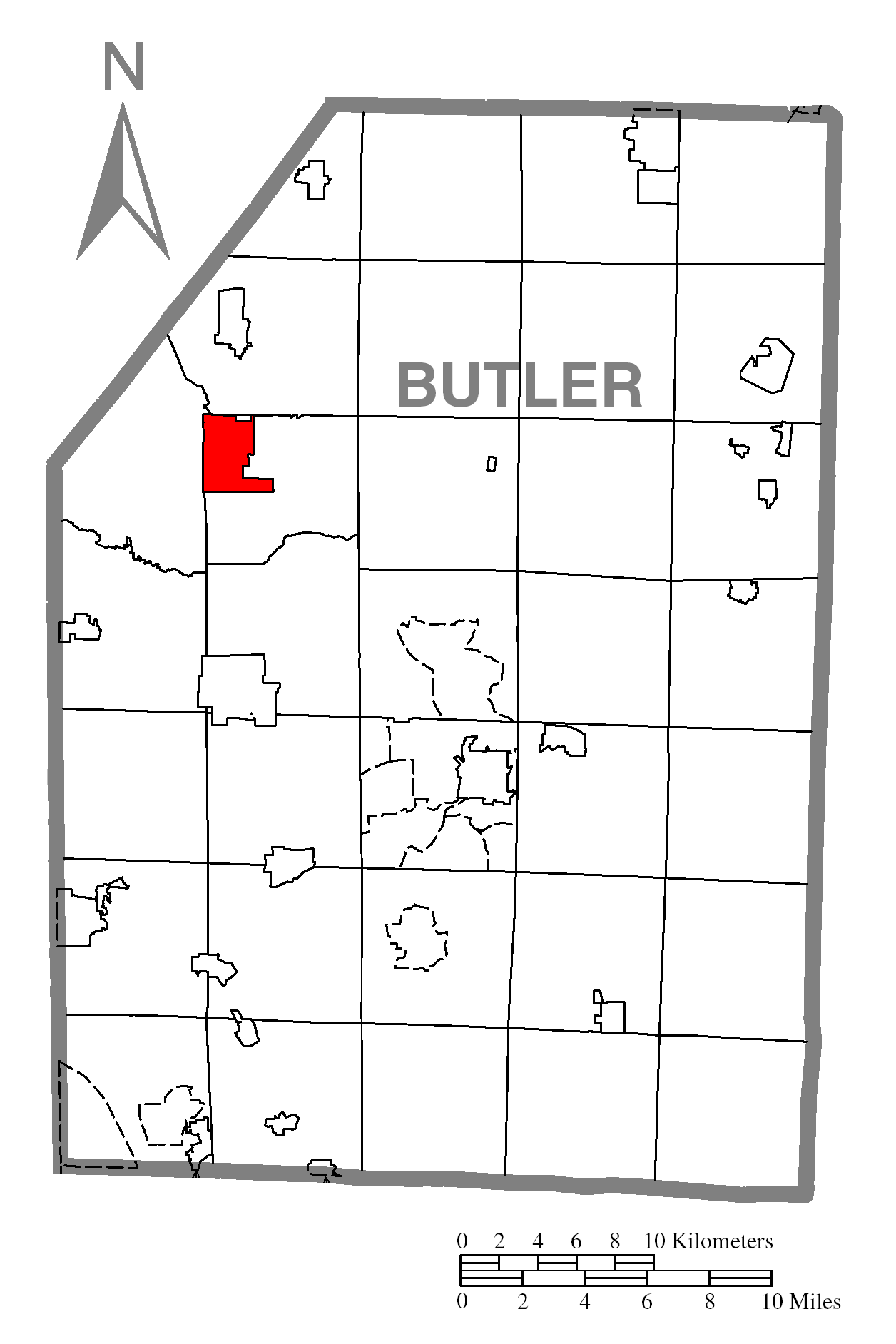 A map of Butler County showing West Liberty, Pennsylvania (alternate) highlighted on the map.